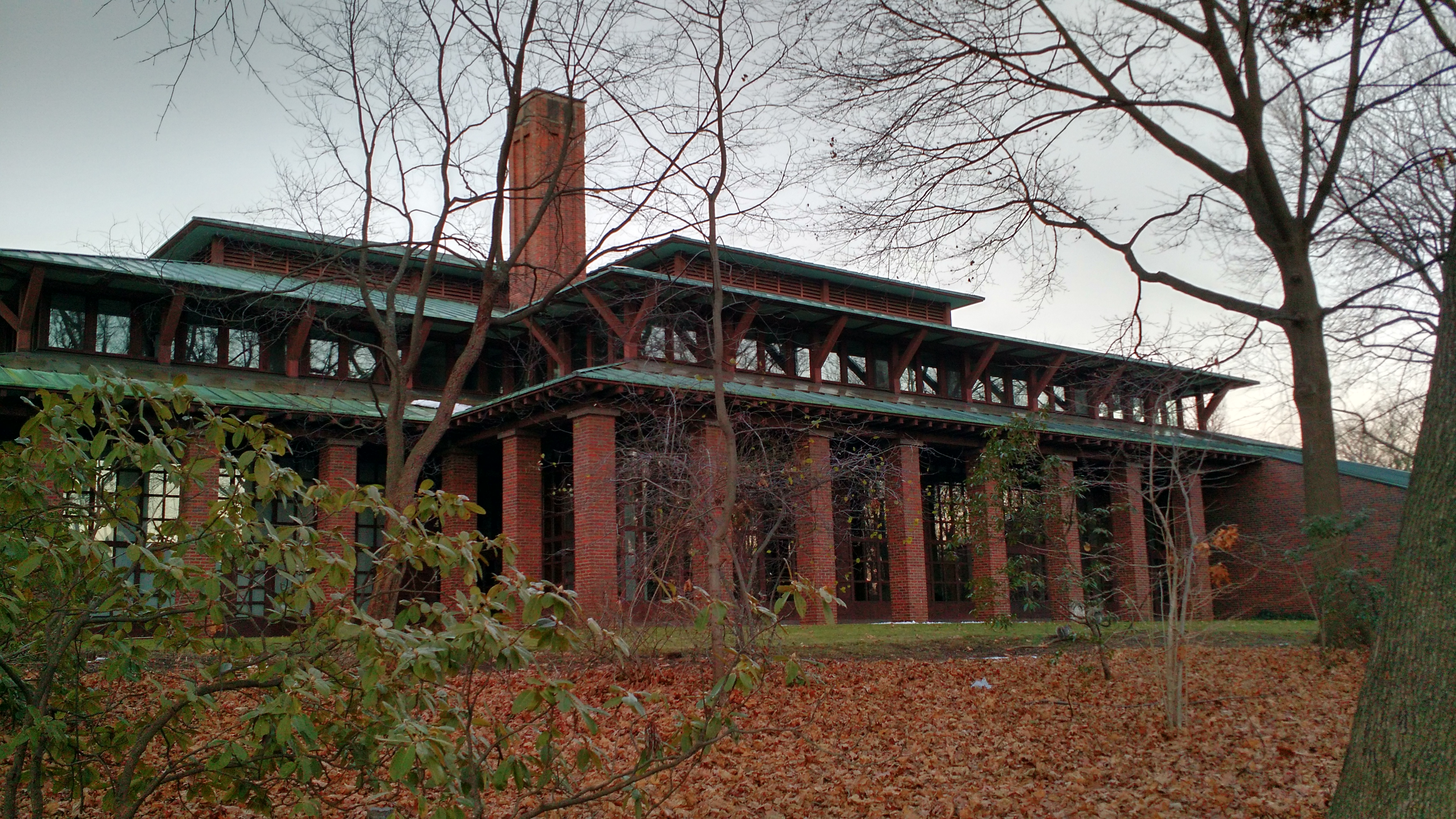 Exterior of the AAAS building in Cambridge, Massachusetts, January 2016